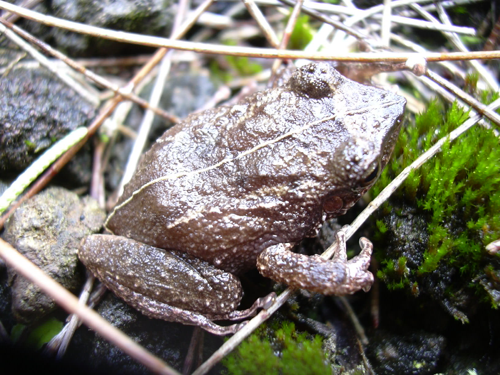 Casuarina equisetifolia (with Eleutherodactylus coqui). Location: Hawaii, Hilo